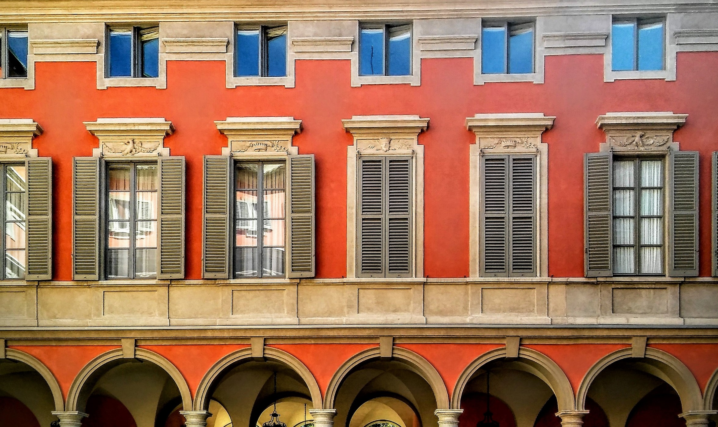 Courtyard of palazzo Belgioioso, Milan